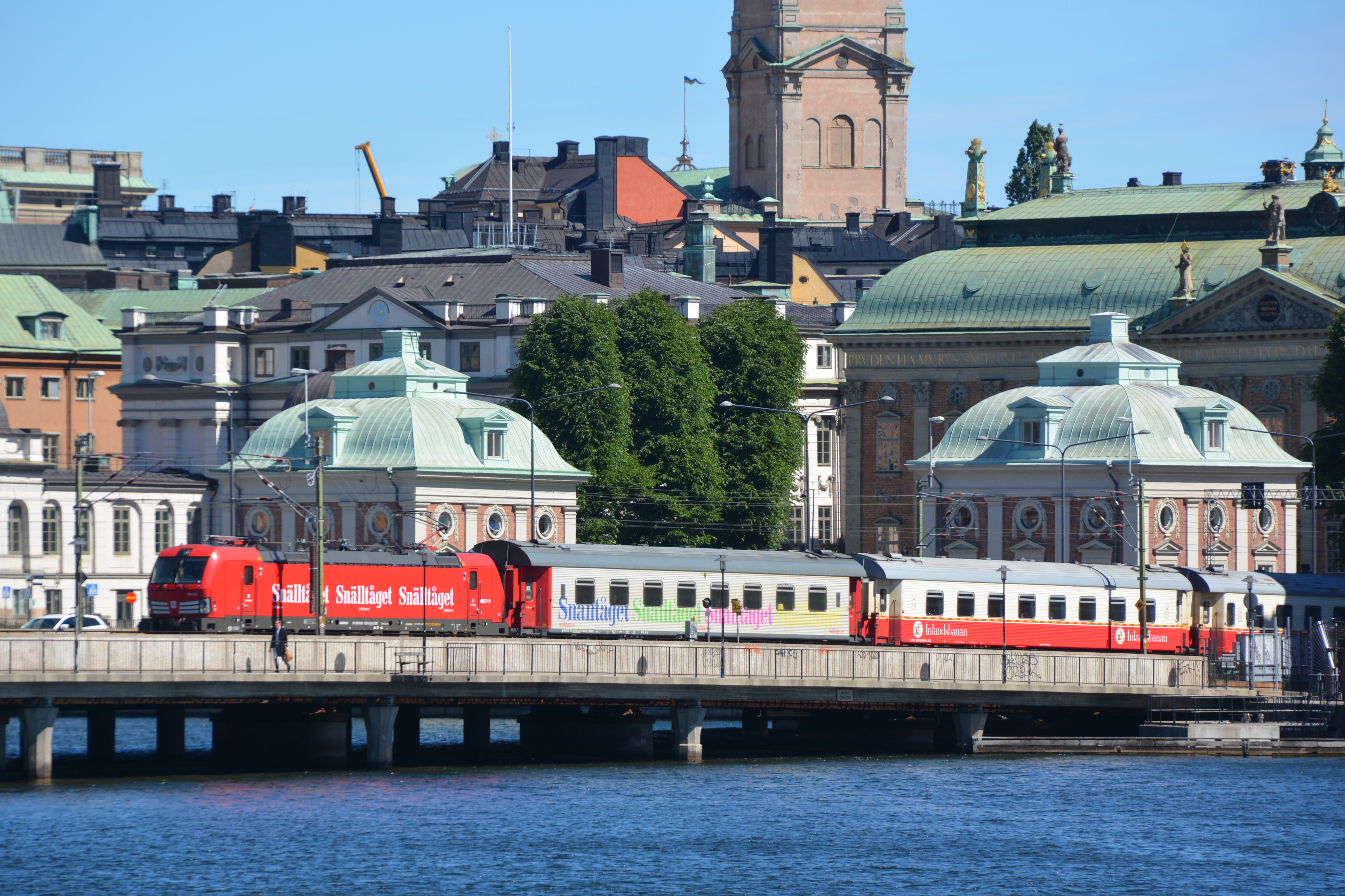 Snälltåget vid Riddarholmen i Stockholm, på väg in mot Stockholms centralstation